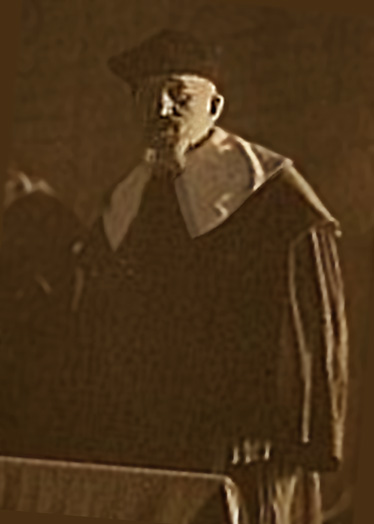 Professor Piotr Marian Massonius, Dean of the Humanities Department at the Stefan Batory University in Vilnius, Poland